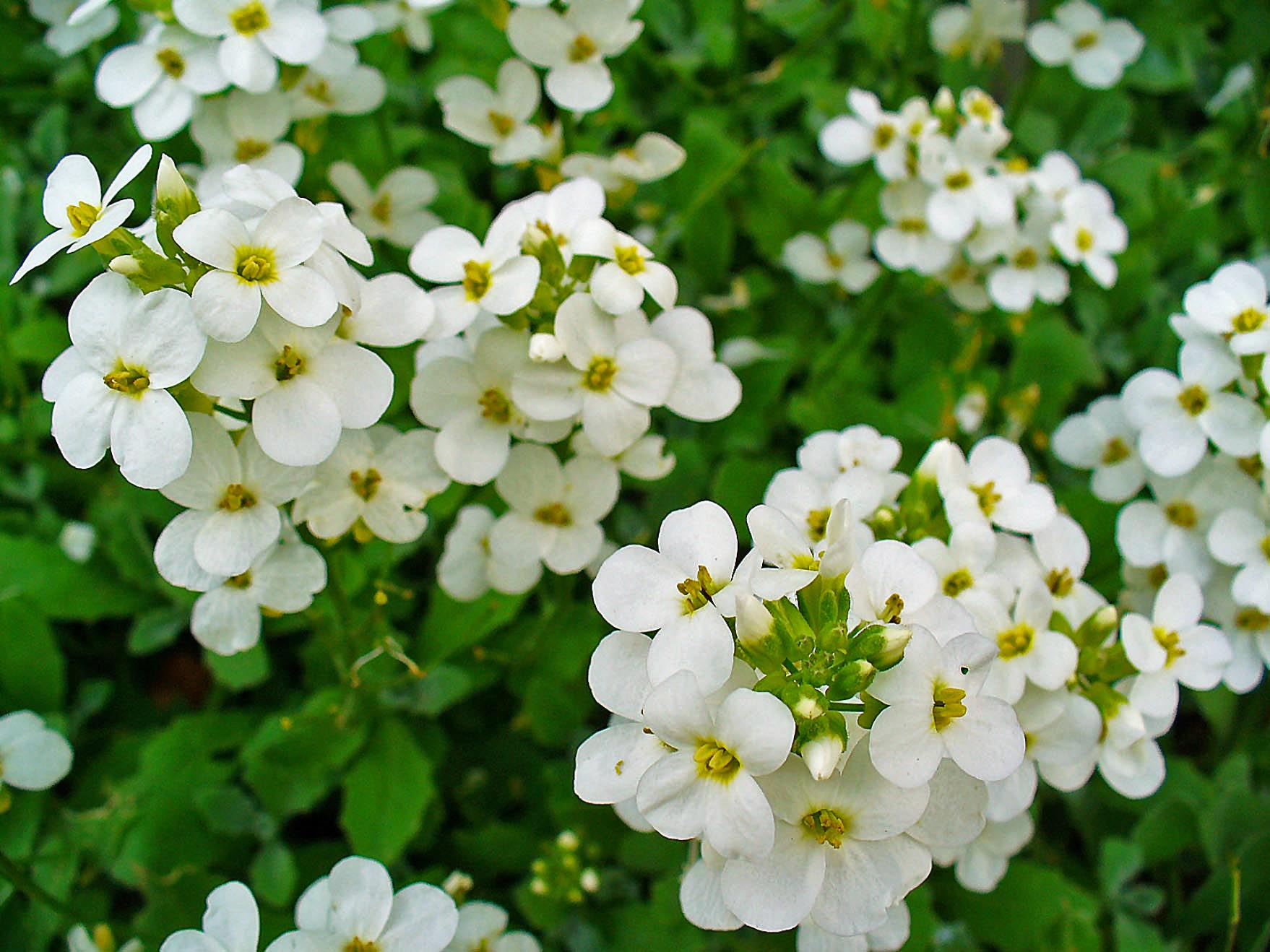 Arabis alpina subsp. caucasica, Brassicaceae, Gray Rockcress, inflorescences; Botanical Garden KIT, Karlsruhe, Germany.